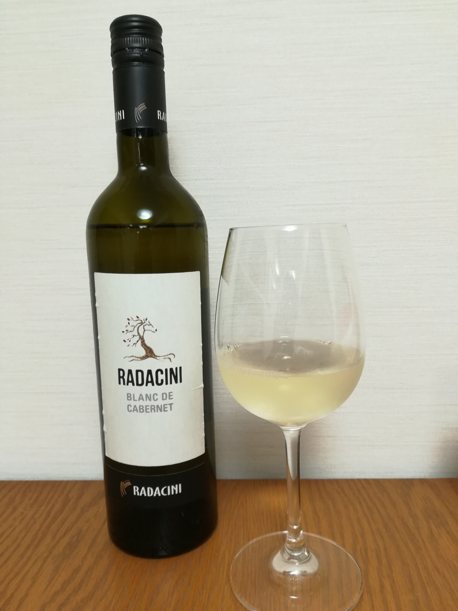 A grass of white wine. The cepage is Cabernet Sauvignion, which is black-colored grape. 2017, from Moldova.